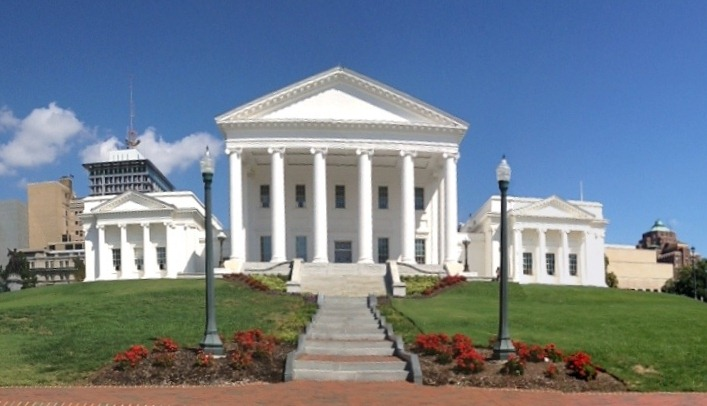 The Virginia State Capitol Building